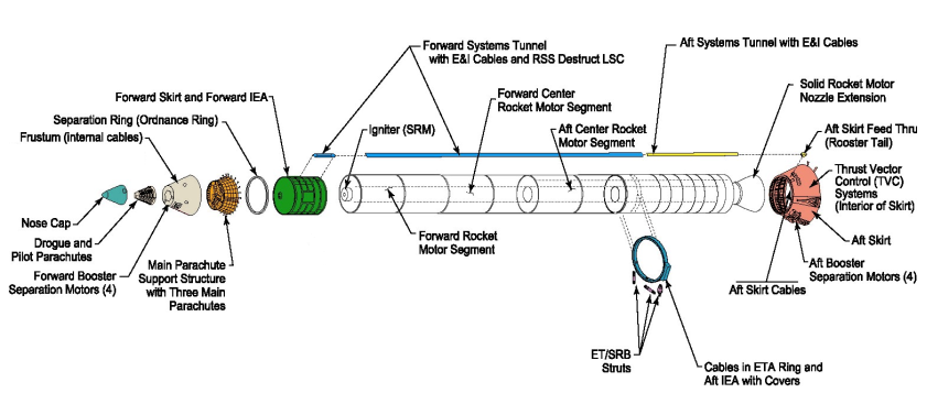 An exploded diagram showing the components of a Space Shuttle Solid Rocket Booster.